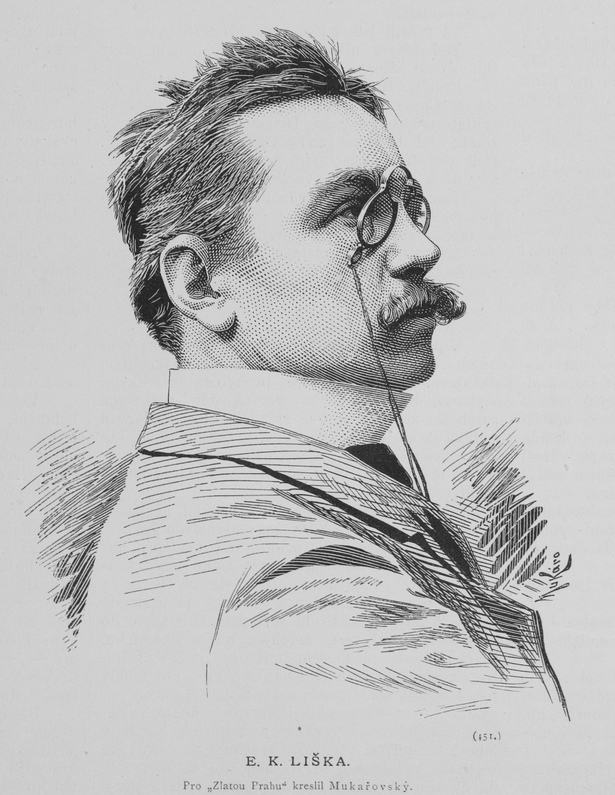 Portrait of Emanuel Krescenc Liška (1852 - 1903), Czech painter.